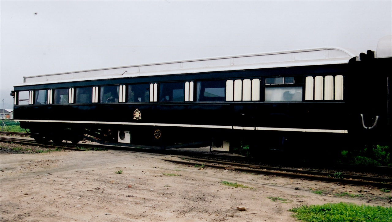 Rovos Rail observation car type A-28 twin diner.